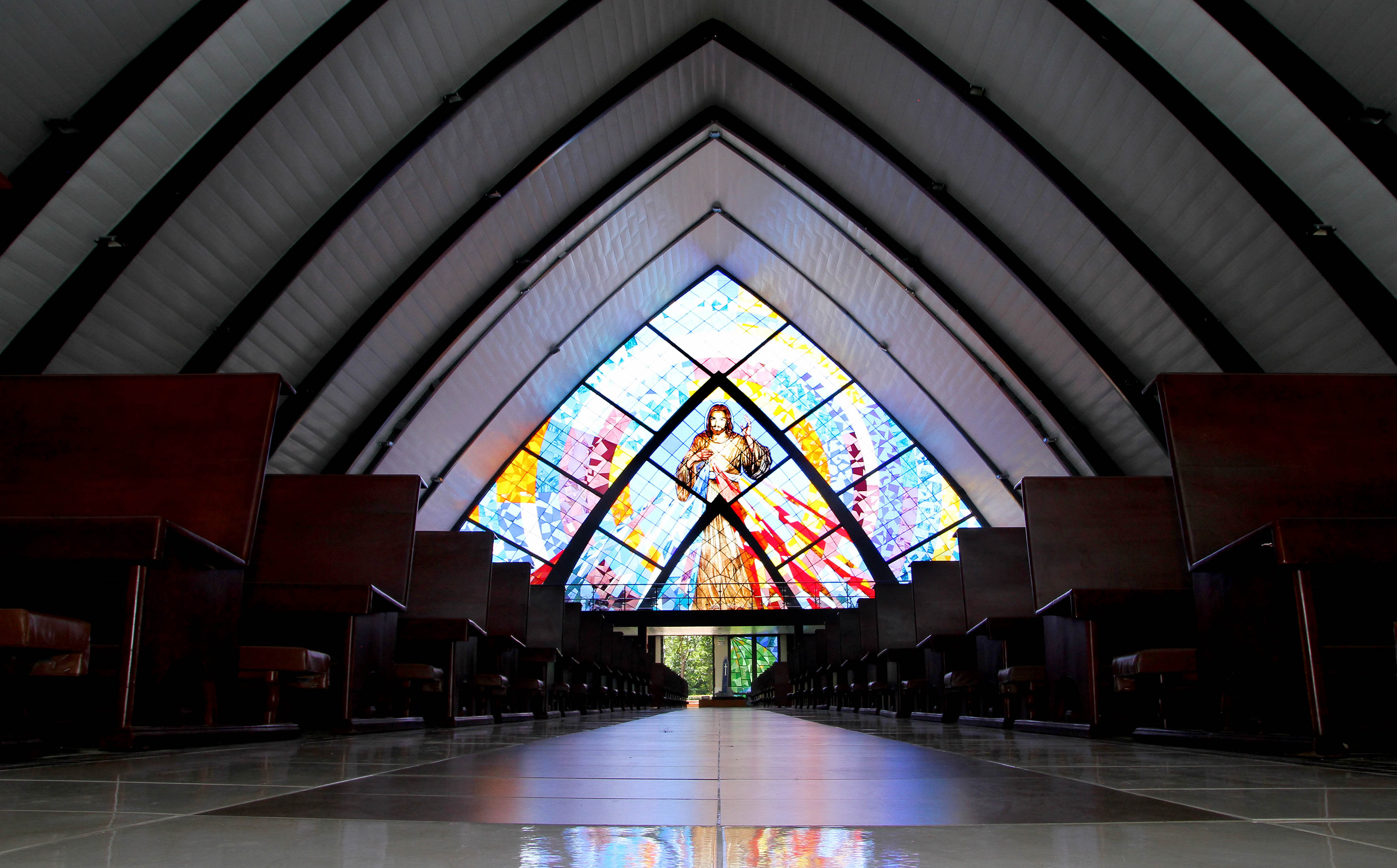 Guayaquil, 29 de may (Andes).-En los predios cercanos al santuario de la Divina Misericordia (foto) el Papa Francisco oficiará una misa campal para 11 mil fieles católicosFoto:César Muñoz/Andes